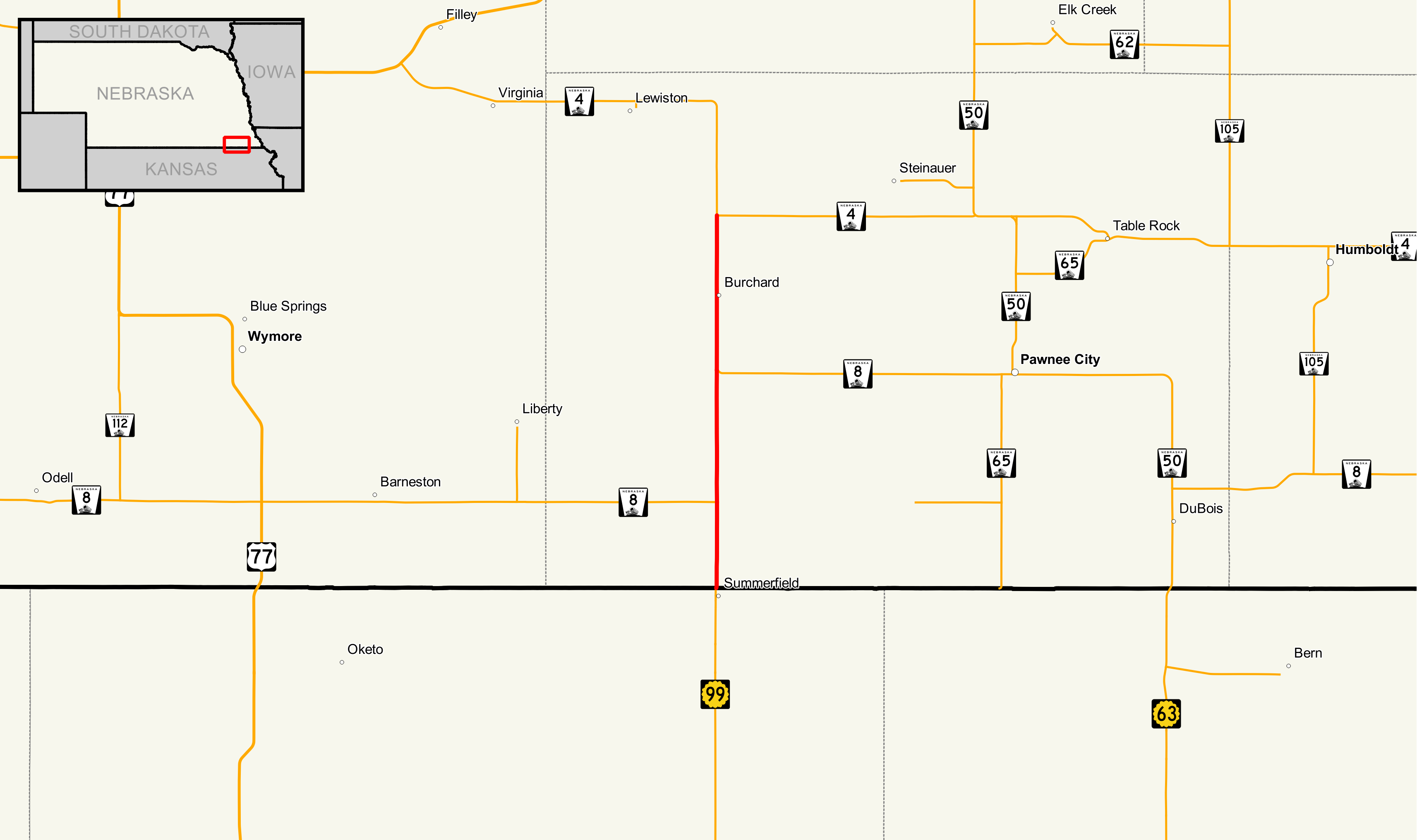 Map of Nebraska Highway 99 Data Sources: Nebraska Highways - - Dec 2016 Nebraska County Boundaries - - Dec 2016 Nebraska City Boundaries - - Dec 2016 This PNG graphic was created with QGIS